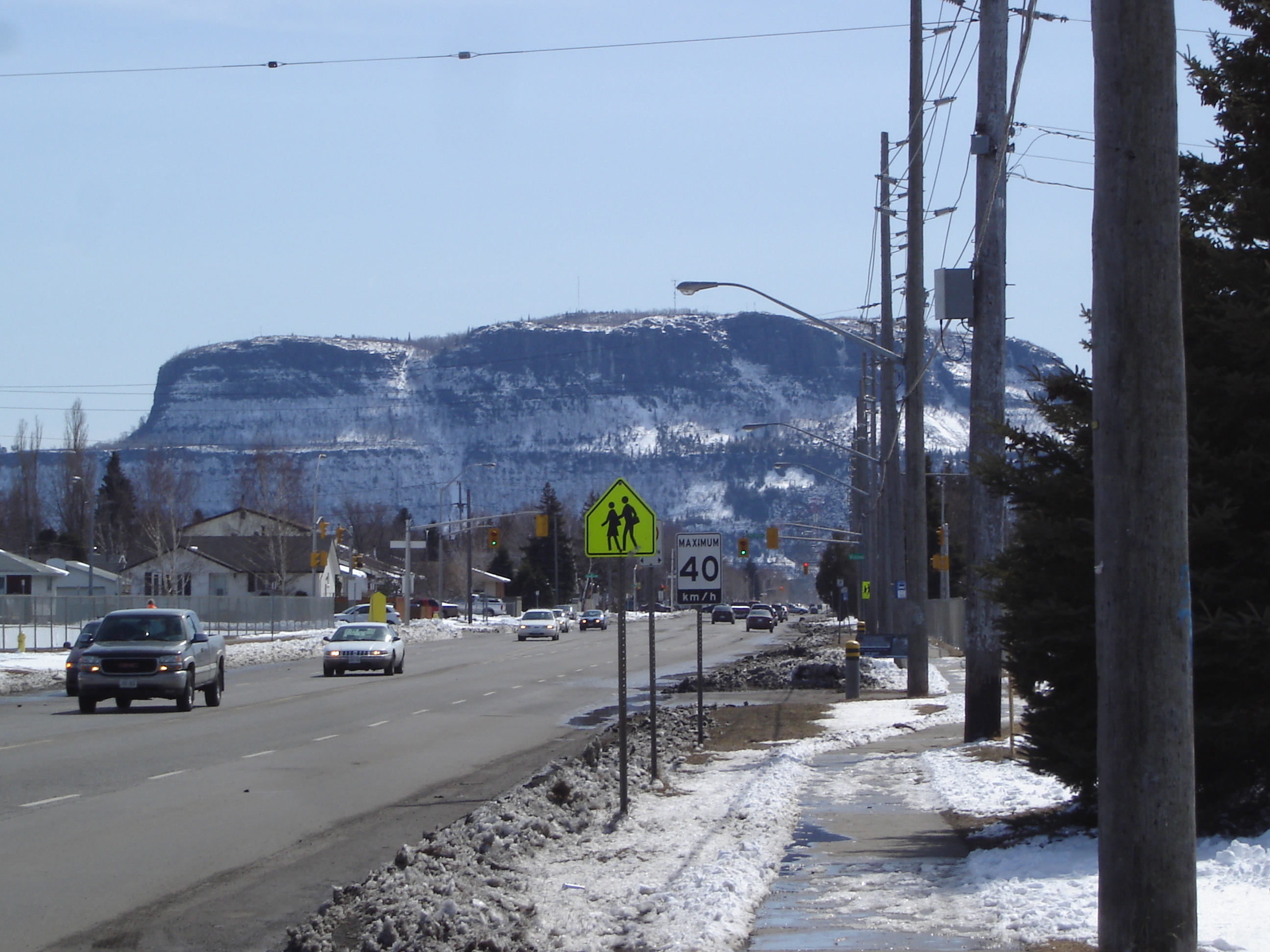 Mount McKay in Thunder Bay, Ontario, Canada.